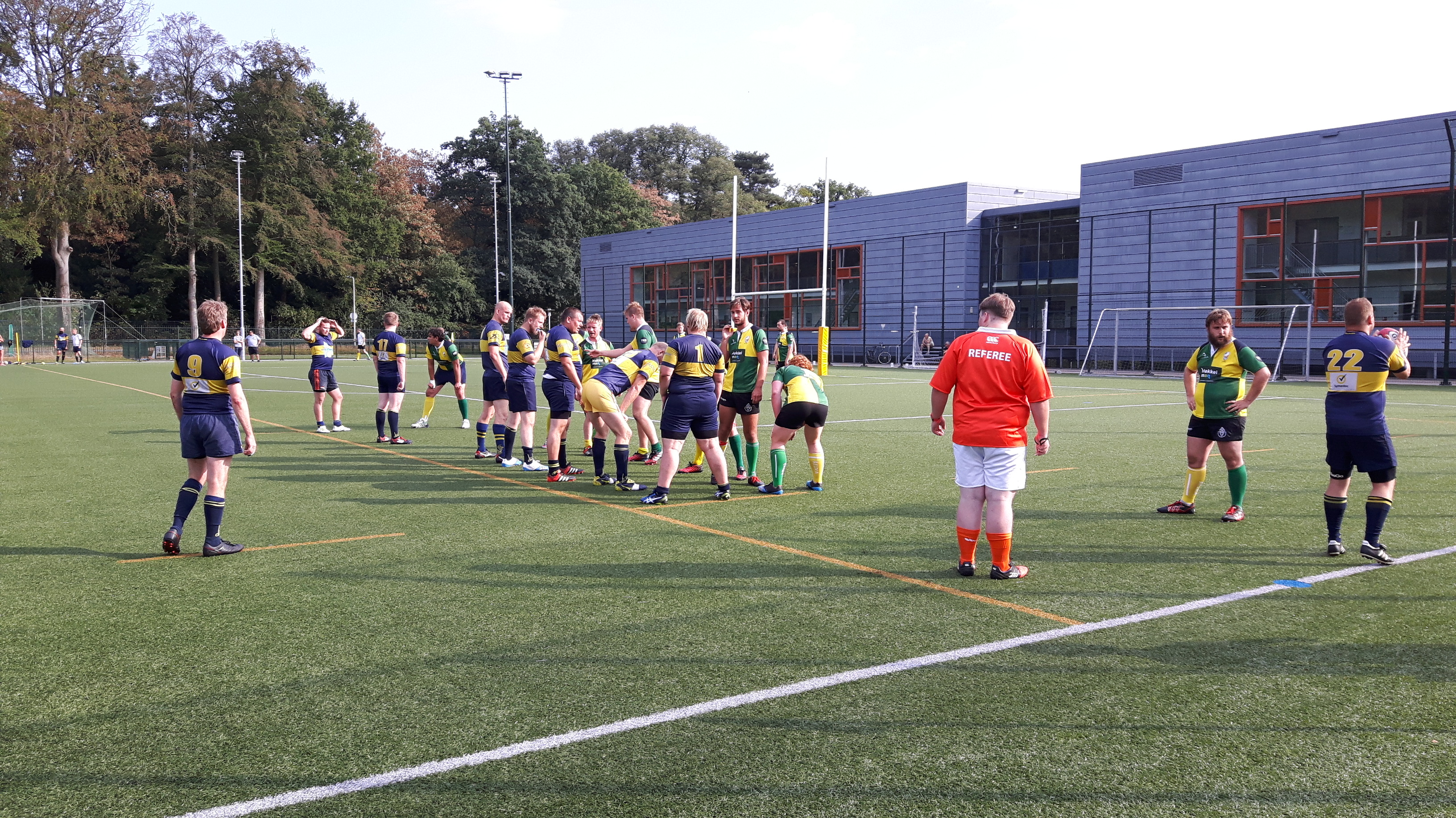 Rugby union match between NSRV Obelix (Nijmegen) and RC DIOK (Leiden) at the Radboud Sports Centre, 25 September 2016